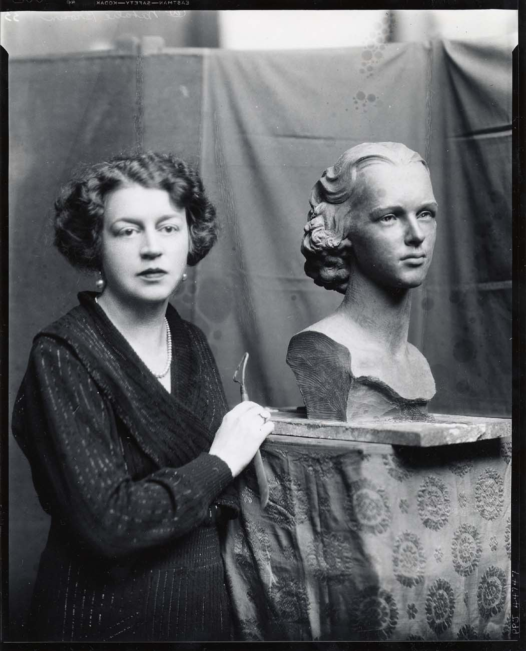 Description: Margaret French Cresson was the daughter of renowned sculptor Daniel Chester French. Cresson's specialty was creating portrait busts but was also a gifted painter, writer and lecturer. In 1969 she donated the 150 acre family estate and studio in Western Massachusetts, Chesterwood, to the National Trust for Historic Preservation. Today, Chesterwood is a public museum. Creator/Photographer: Peter A. Juley & Son Medium: Black and white photographic print Dimensions: 8 in x 10 in Culture: American Persistent URL: [1] Repository: Archives of American Art Native nameArchives of American ArtLocationWashington, D.C.Coordinates38° 53′ 52″ N, 77° 01′ 22″ W Established1954Website control : Q2860568 VIAF: 151134814 ISNI: 0000 0001 2185 0758 LCCN: n79065944 NLA: 35007823 GND: 1085306631 WorldCat Collection: Peter A. Juley & Son Collection - The Peter A. Juley & Son Collection is comprised of 127,000 black-and-white photographic negatives documenting the works of more than 11,000 American artists. Throughout its long history, from 1896 to 1975, the Juley firm served as the largest and most respected fine arts photography firm in New York. The Juley Collection, acquired by the Smithsonian American Art Museum in 1975, constitutes a unique visual record of American art sometimes providing the only photographic documentation of altered, damaged, or lost works. Included in the collection are over 4,700 photographic portraits of artists. Accession number: J0044747